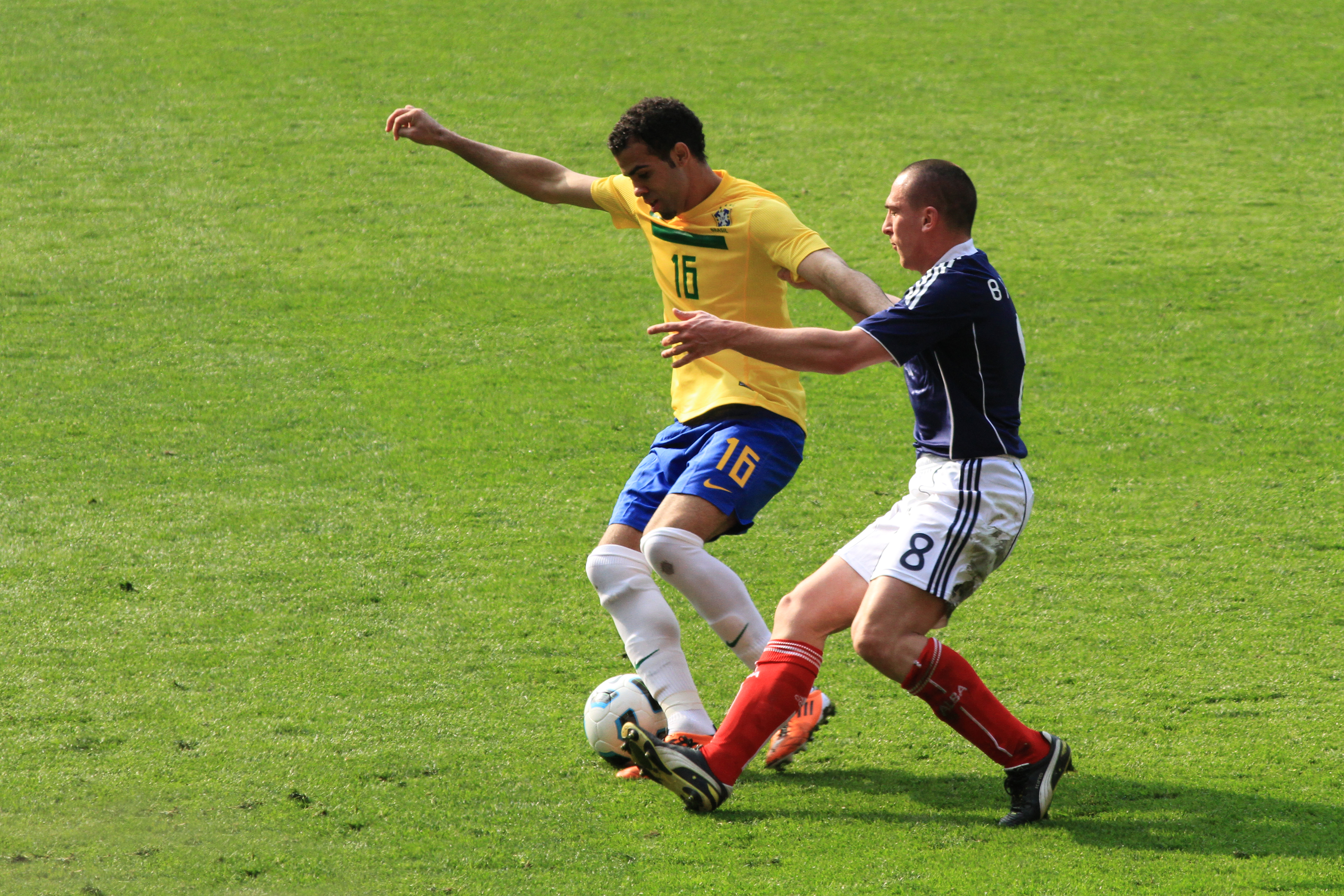 Scott Brown and Sandro